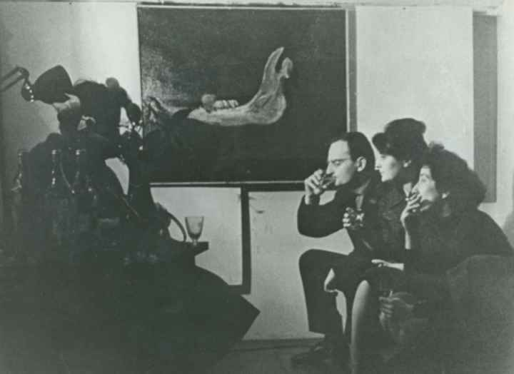 Hilary Krzysztofiak